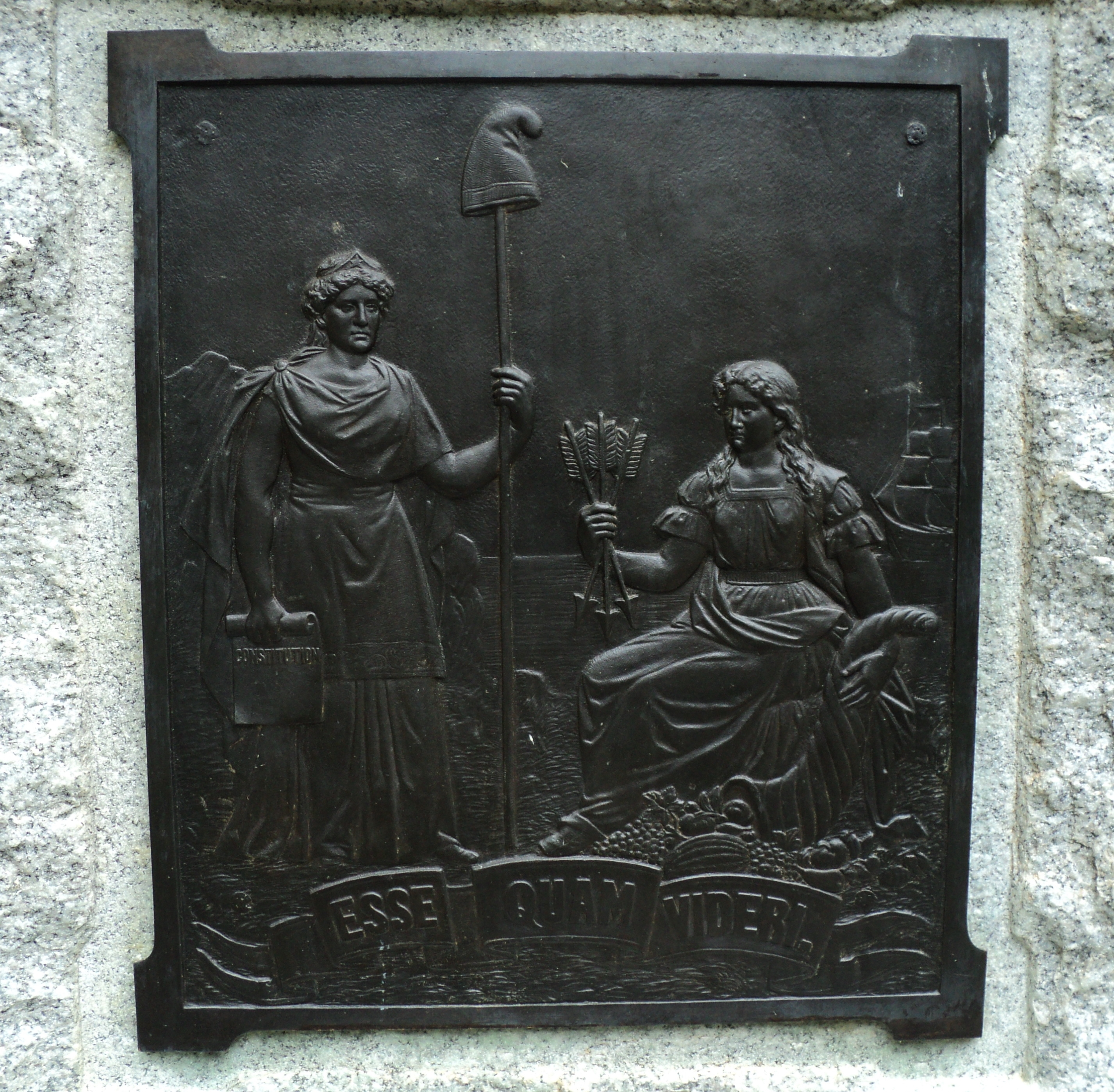 Plaque on Monument to Joseph Winston at Guilford Courthouse National Military Park. Plaque bears the Latin "esse quam videri," the state motto of North Carolina. The plaque is a version of the North Carolina state seal.